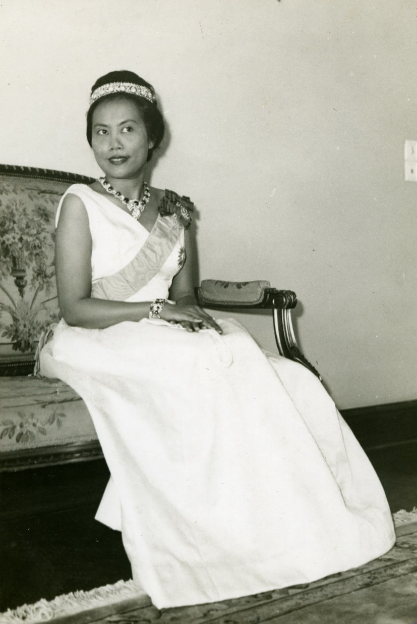 Princess Bejaratana Rajasuda Sirisobhabannavadi of Thailand